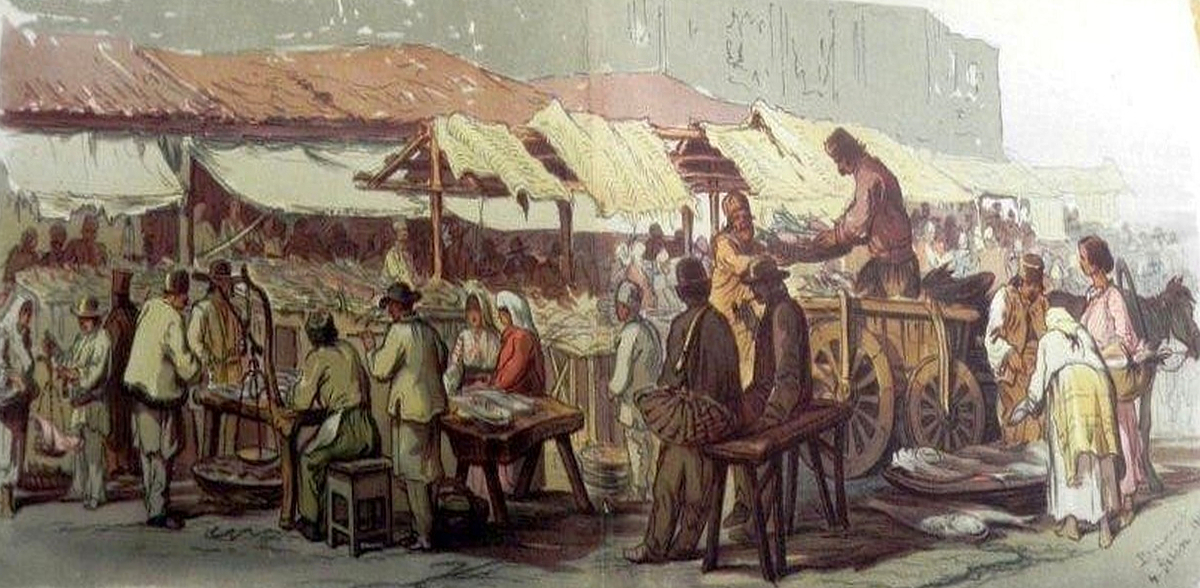 View from the fish market (probably Obor/Moşi)